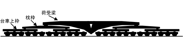 Structure of schnabel car with Japanese description.